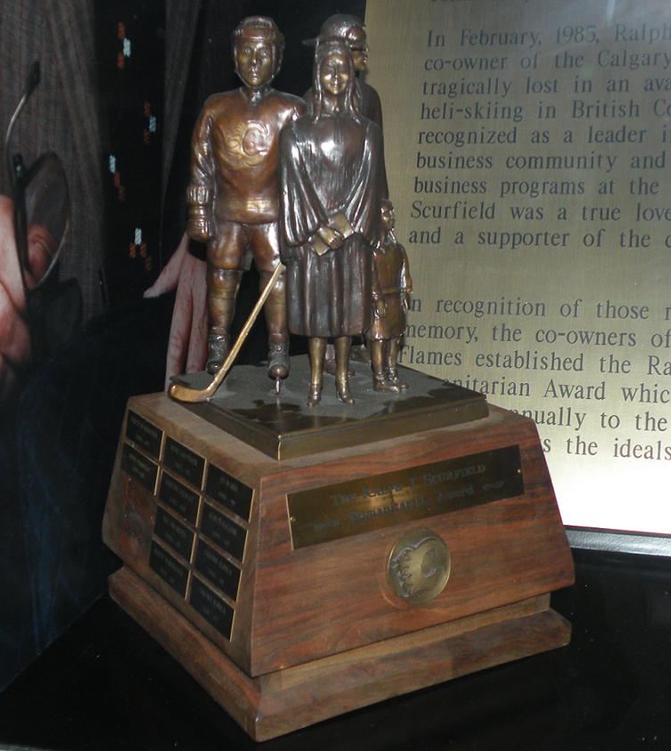 The Ralph T. Scurfield Award, a Calgary Flames team trophy given annually to the Flames player who best exemplifies leadership and community service, on display at the Pengrowth Saddledome in Calgary.